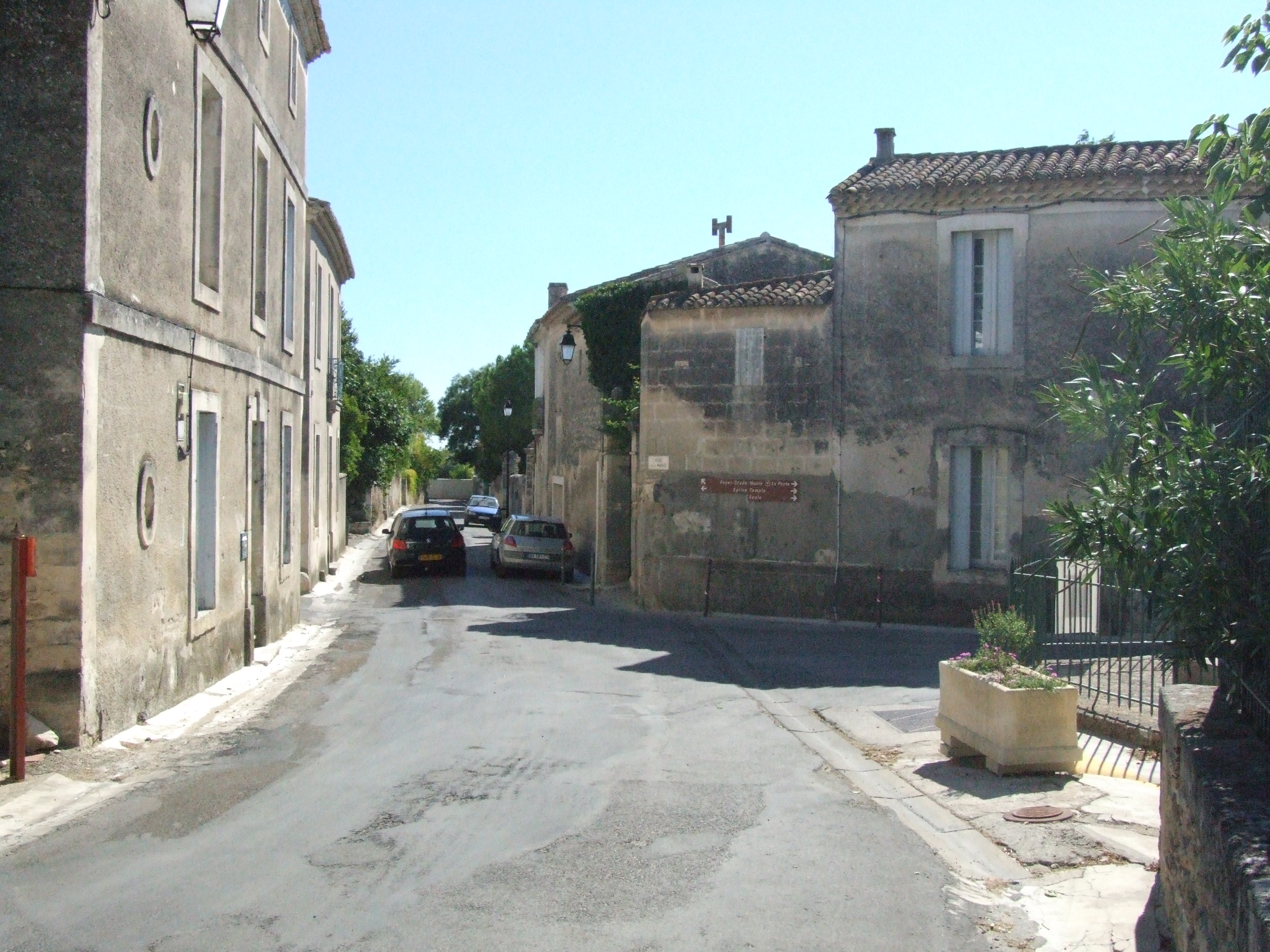 The commune of Junas, ( post code is F30250 and INSEE 30136) is situated north of the River Vidourle, south of Sommières in the departement of Gard. in the region Languedoc-Roussillon in southern France.The mediaeval village centre is similar to its neighbours, but the commune is noted for its quarry which dates from Roman times. Rue de Pioch, Rue de Mairie